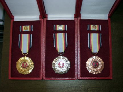 Militarischer Verdienstorden der DDR